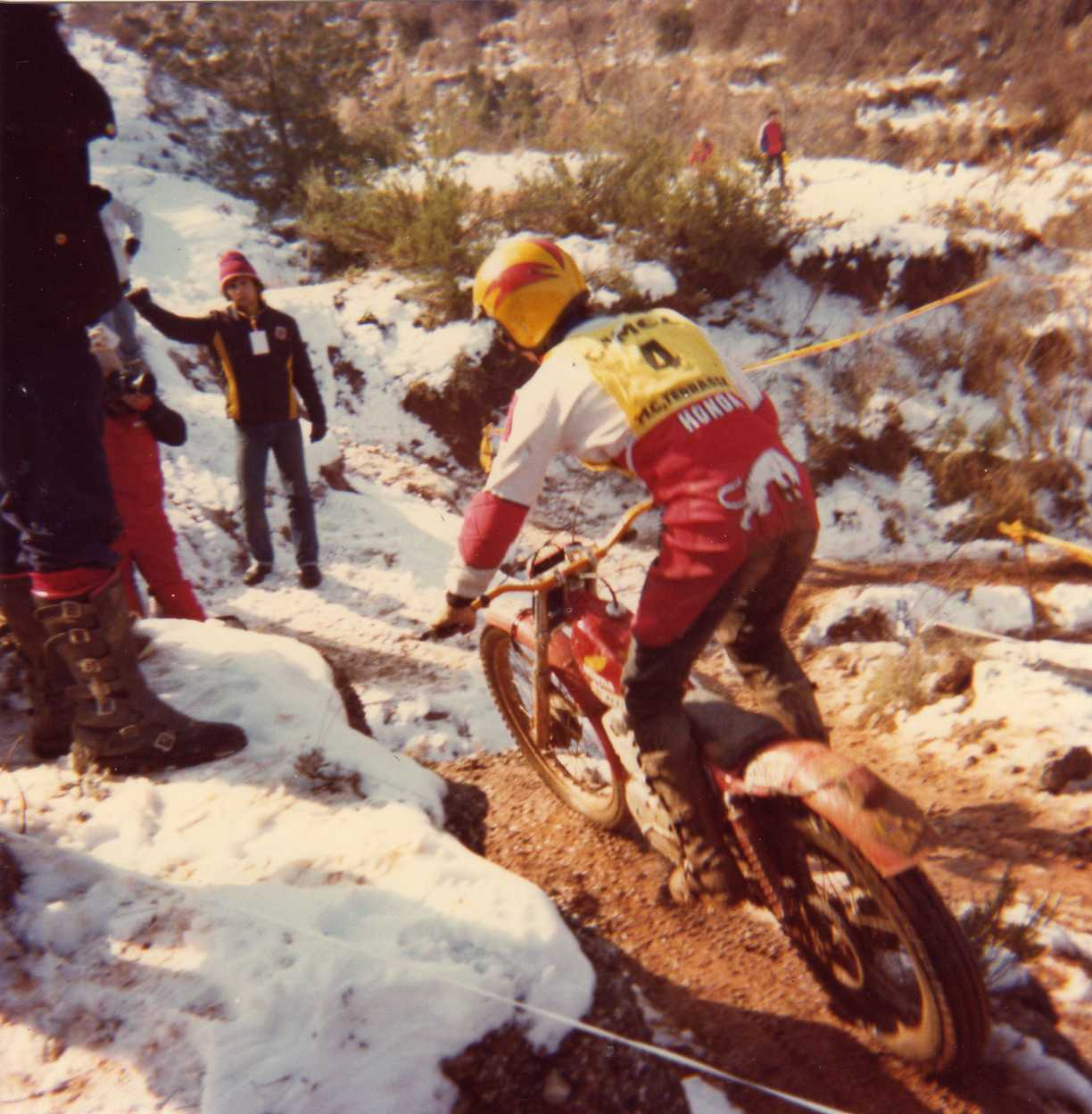 Eddy Lejeune riding his Honda at XV "Trial de Sant Llorenç" in Mura (Catalonia) on February 22, 1981. It was the first race of the Trial World Championship. He finished second, behind Manuel Soler.